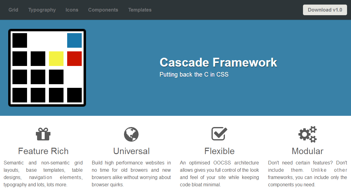 Screenshot of Cascade Framework 1.0